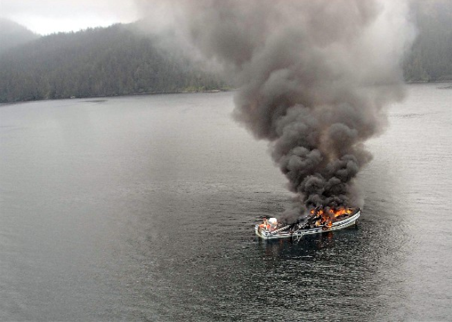 The American fishing vessel Kepala burns in Tatitlek Narrows in Prince William Sound on the south-central coast of Alaska.